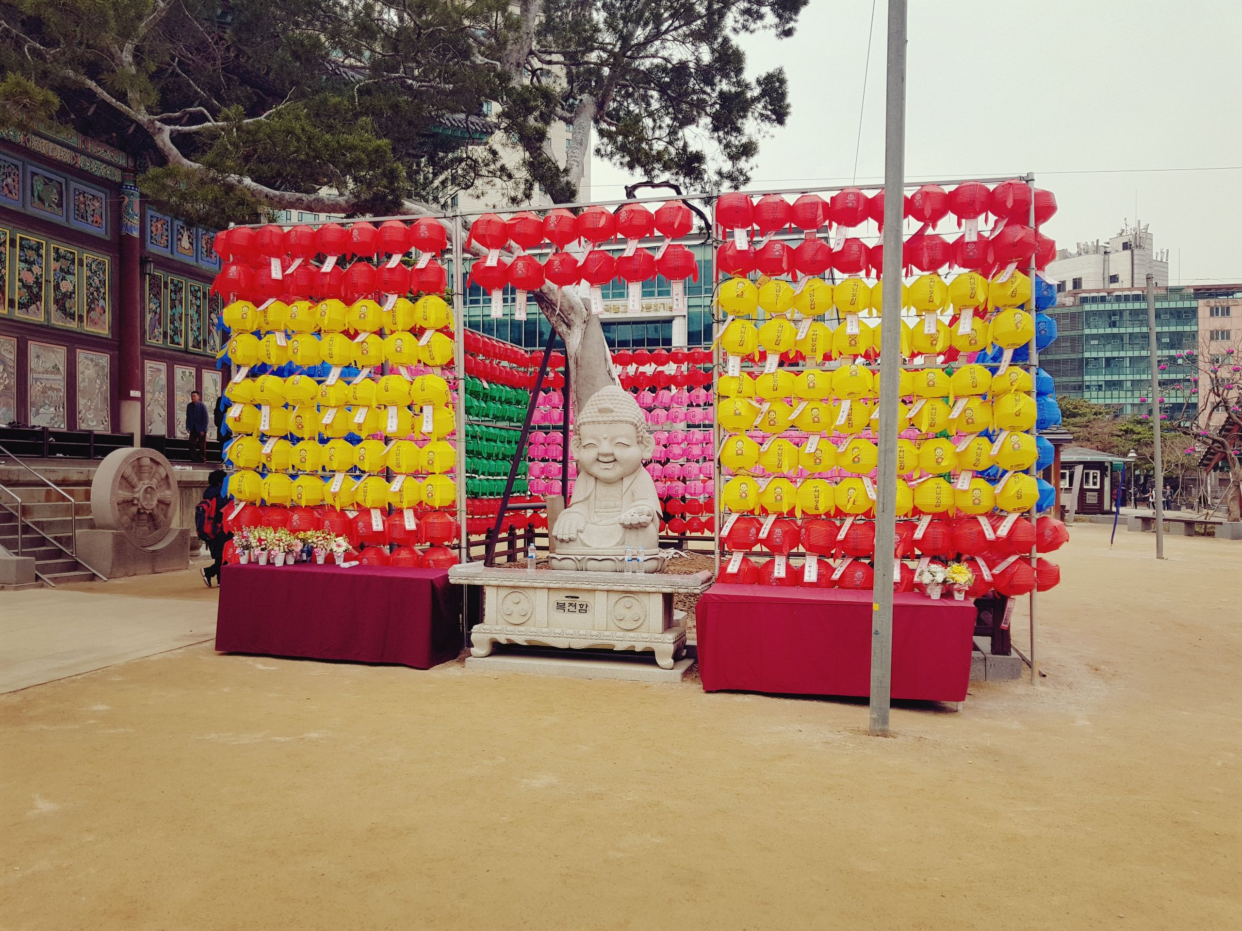 Jogyesa temple in March, before the Lantern festival.